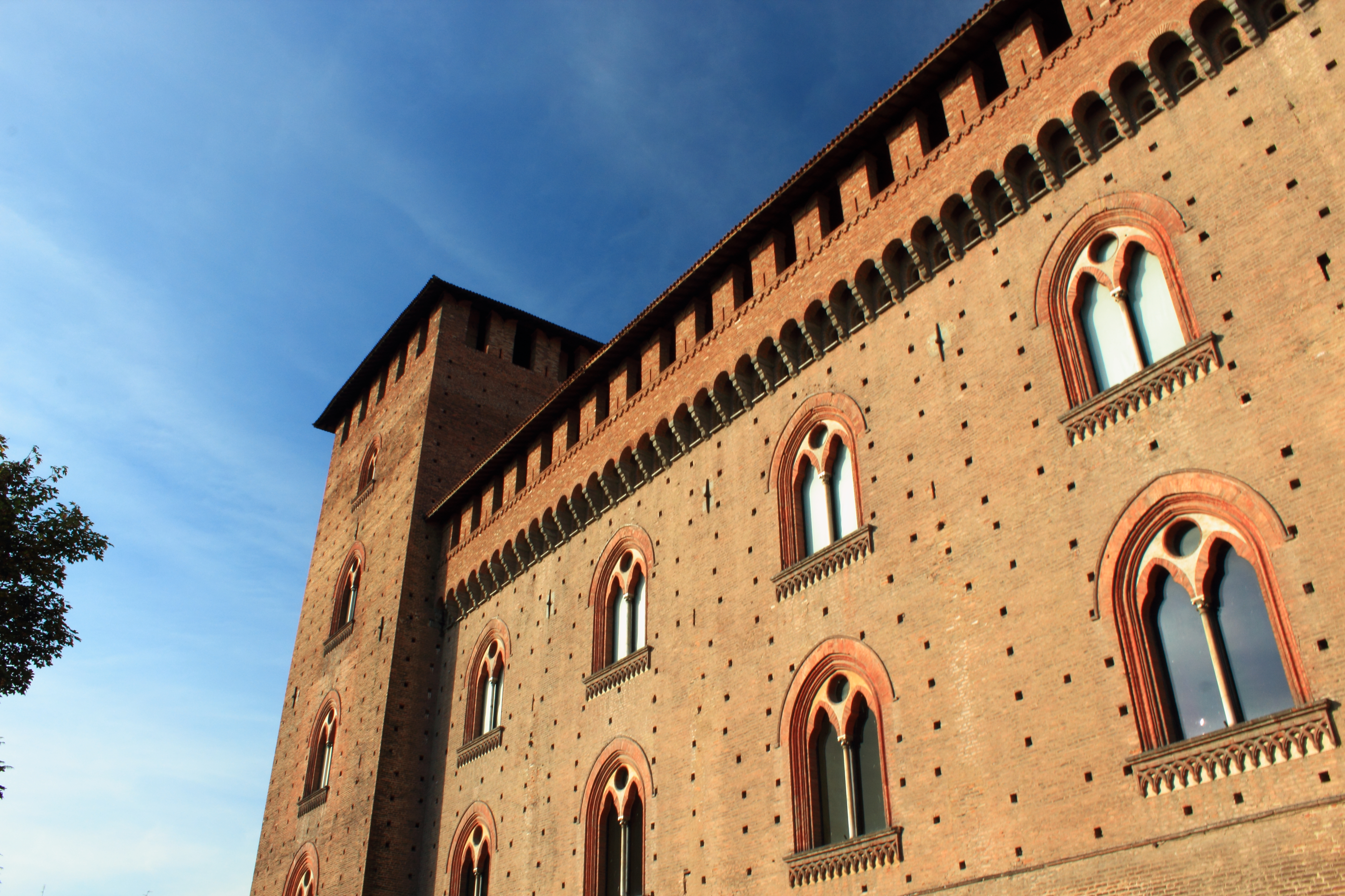 This is a photo of a monument which is part of cultural heritage of Italy.